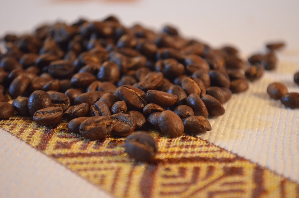 Coffee beans ethiopia culture africa fabric